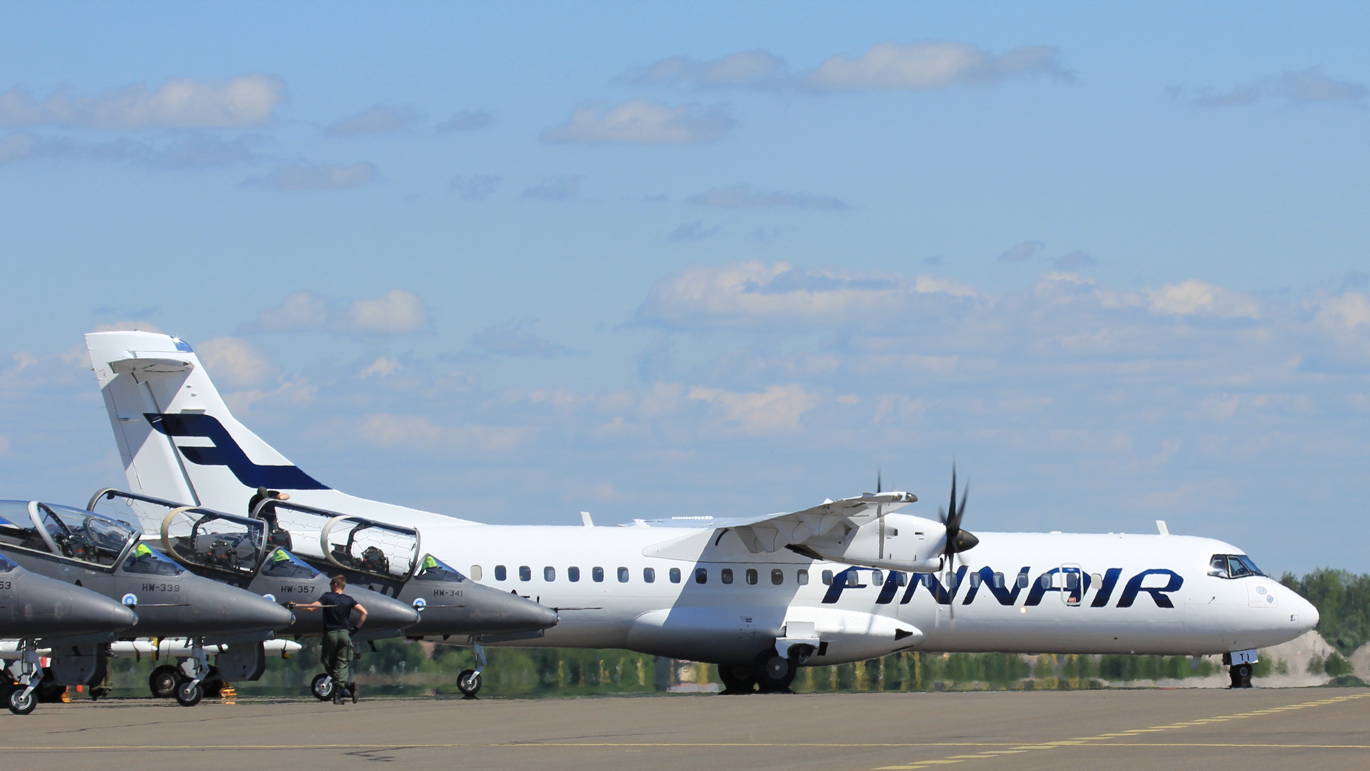 Nordic Regional Airlines ATR 72-500 OH-ATI, Turku Airport, Finland. - Aircraft in Finnair livery. Arrived Turku airport during Turku Airshow in 2019-06-16. Tail number only partially visible because of the Midnight Hawks display teams arcraft.